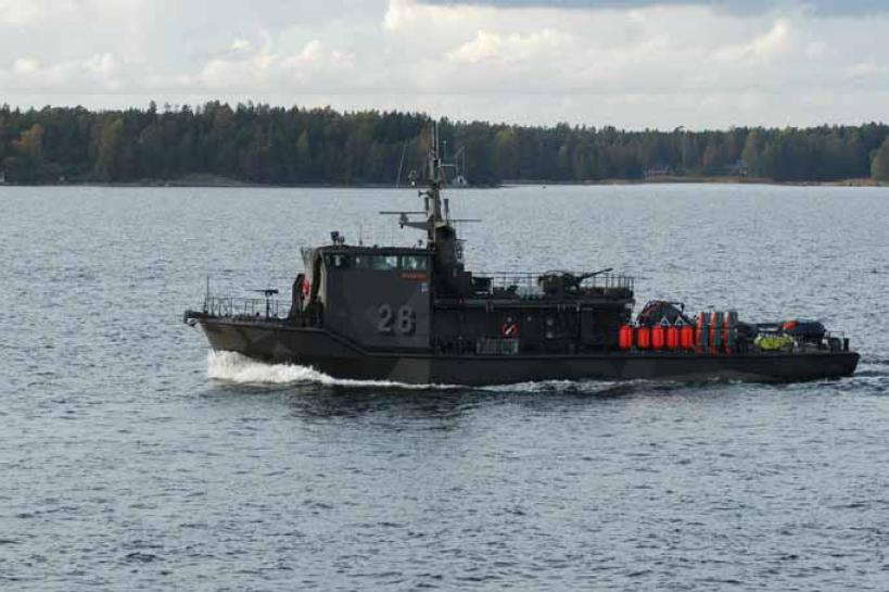 Finnish Navy Minesweeper Kuha 26 of Kuha class. On the deck, one can see a 23 mm AA cannon and a 12.5 mm AA machine gun.